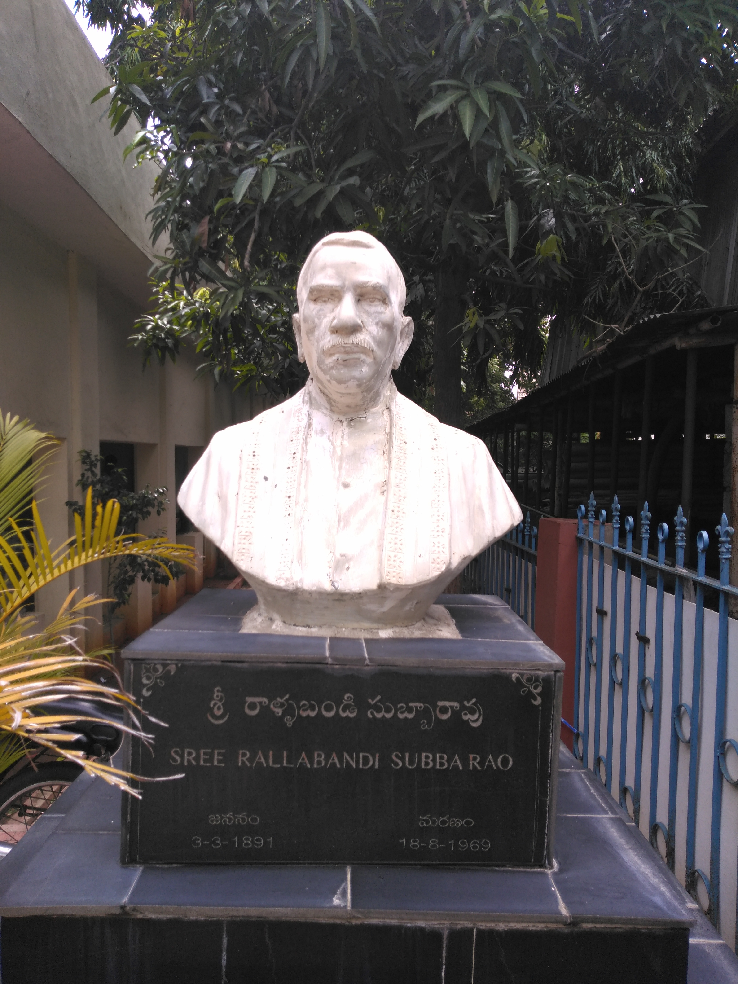 Rallabandi Subbarao Government Museum, Rajamahendravaram (rajahmaundry)